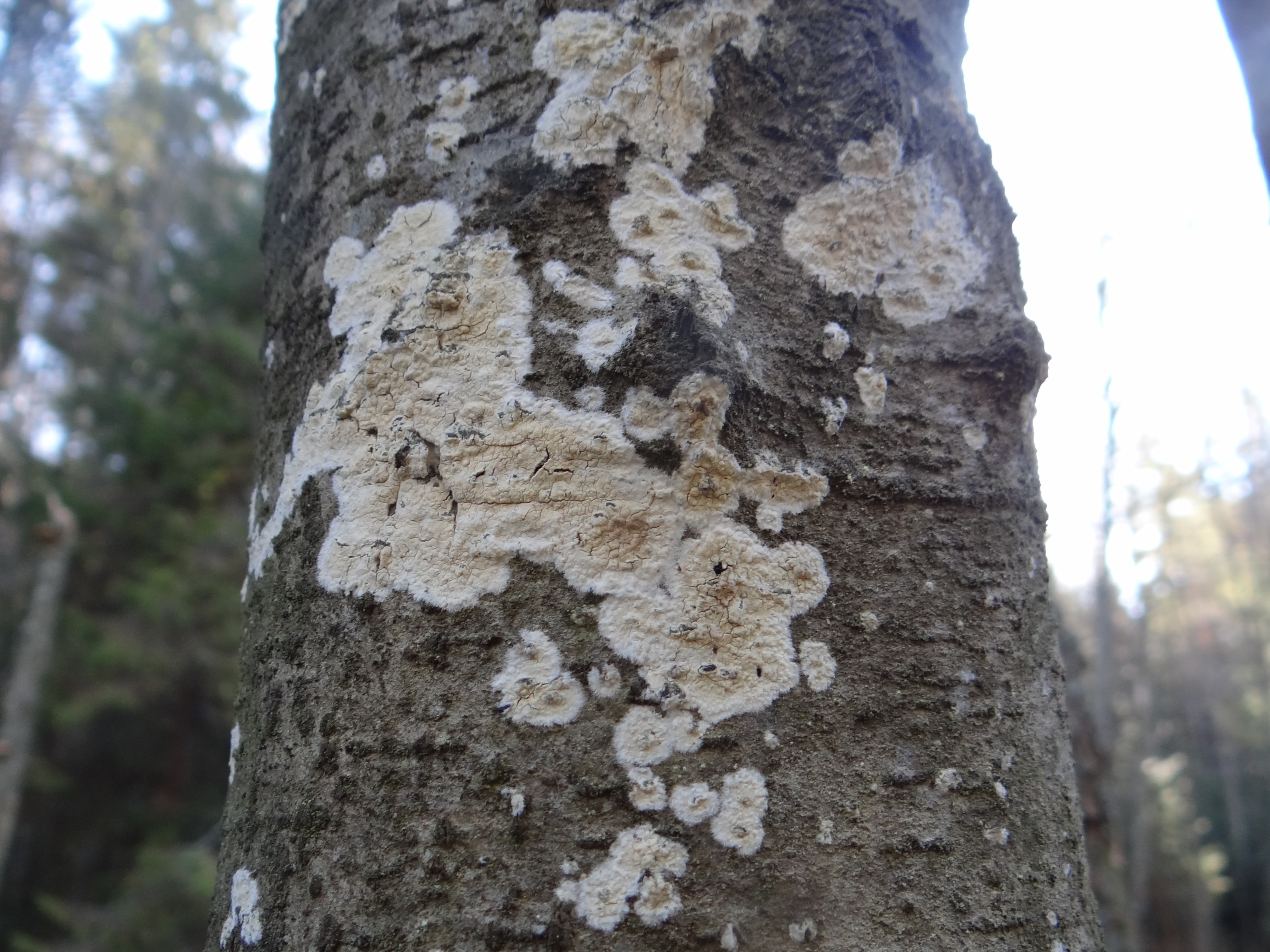 Peniophora cinerea from Alnus incana